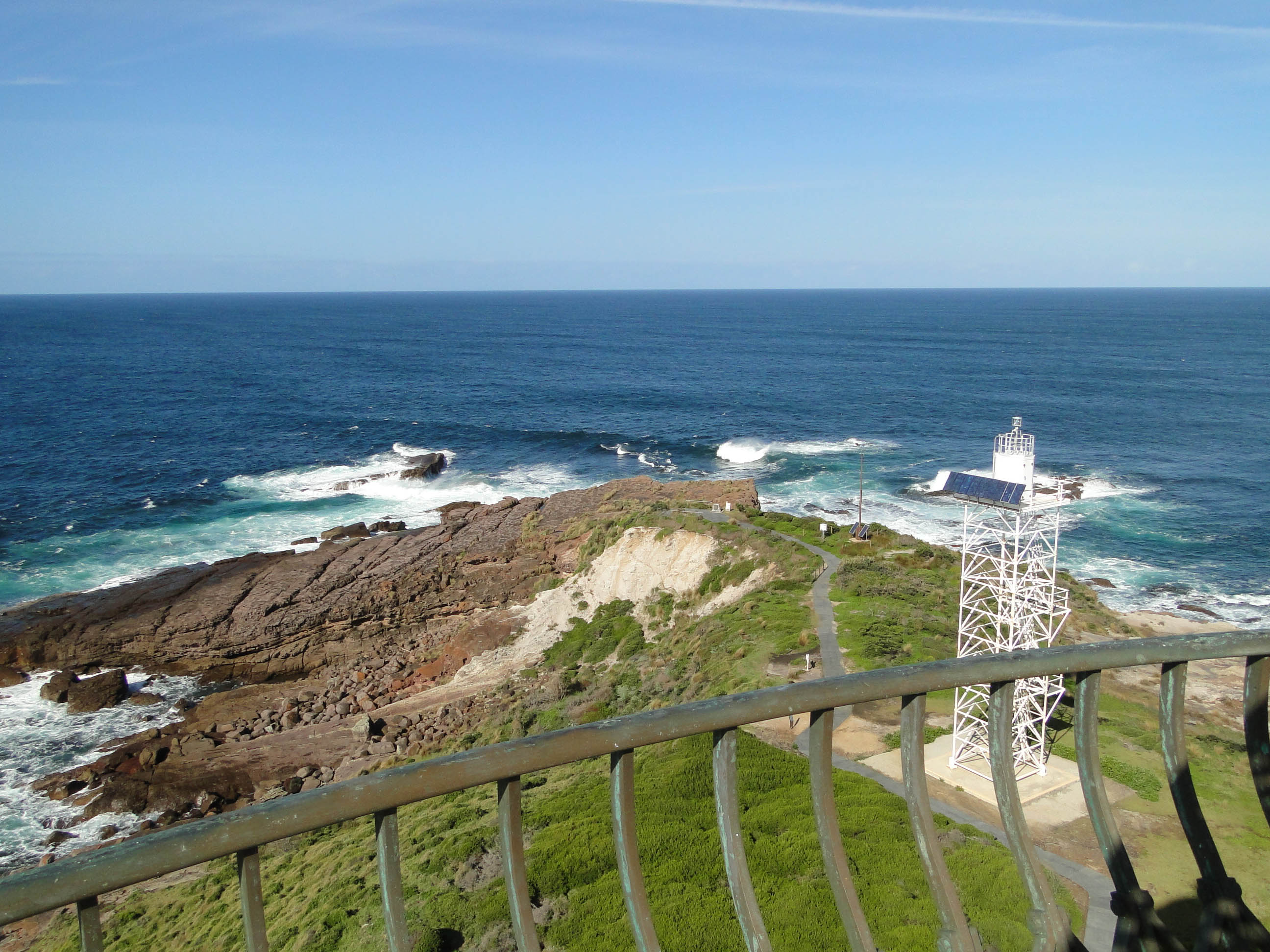 A view of Green Cape from the top of the Green Cape Lighthouse, New South Wales, Australia.